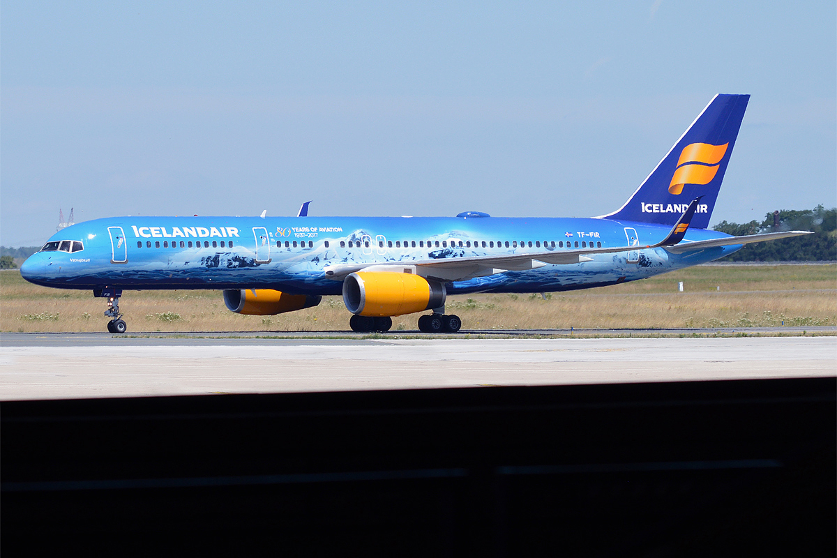 Icelandair, TF-FIR, Boeing 757-256